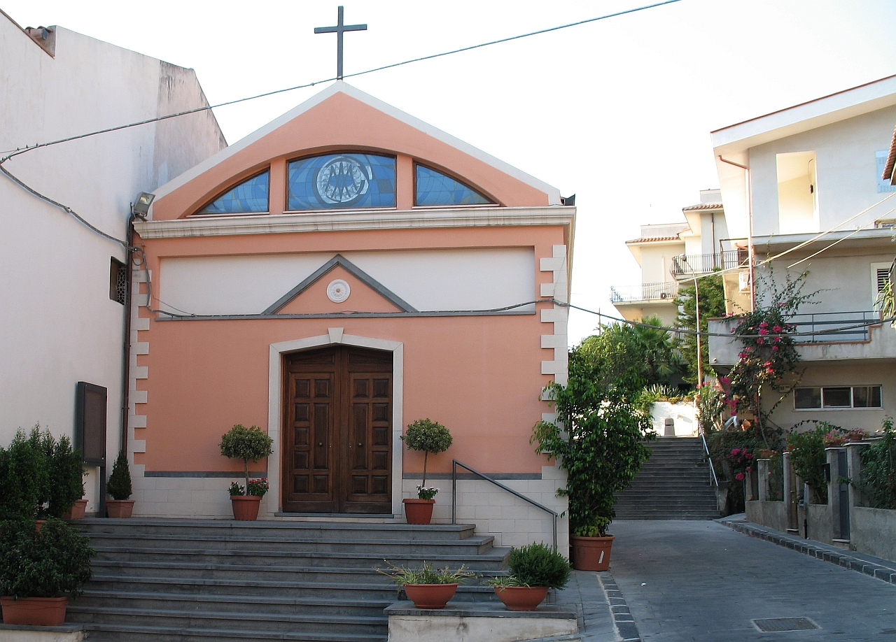 Maria Immacolata Church